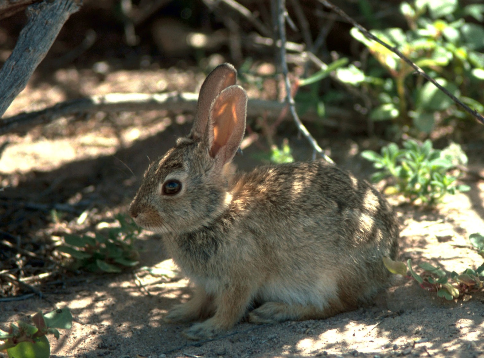 Desert Cottontail (Sylvilagus audubonii)